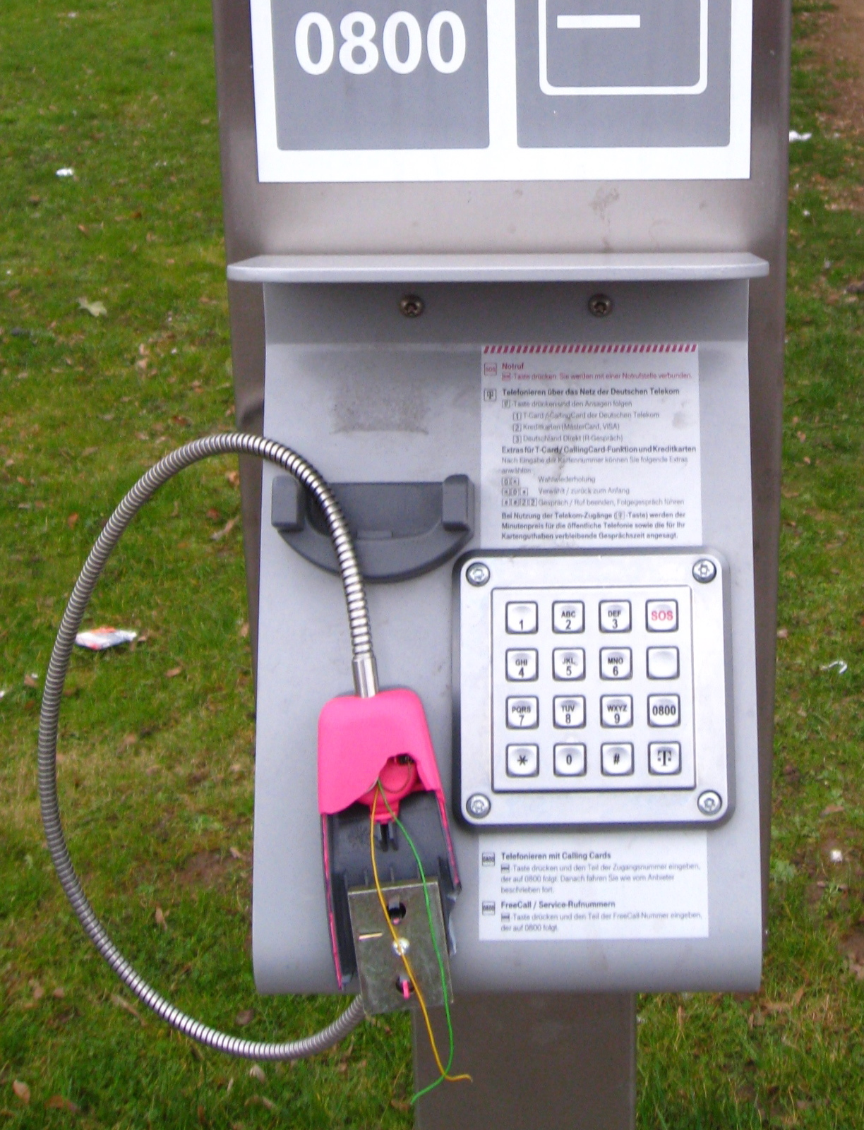 Case of vandalism at a public telephone in Germany.